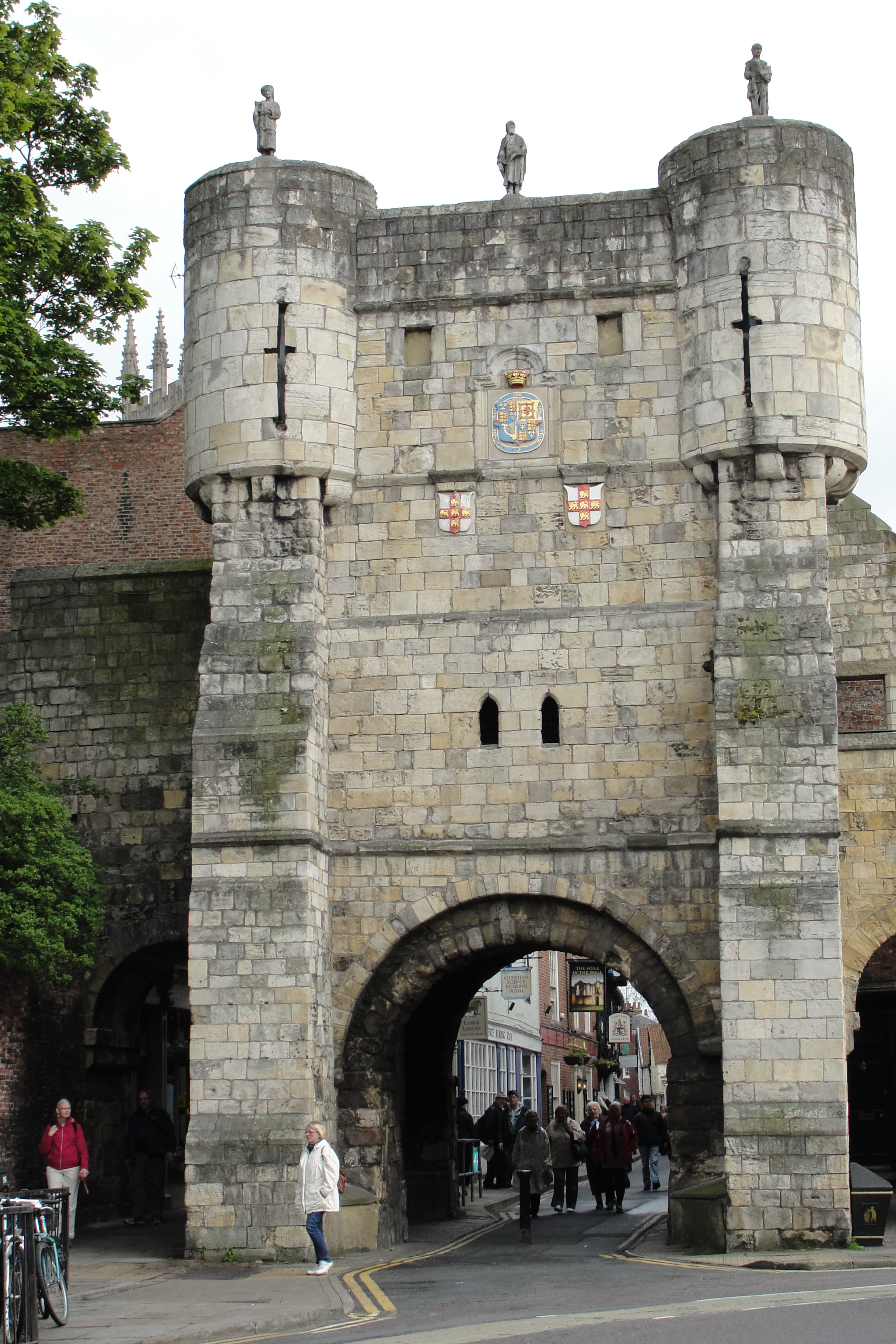 Bootham Bar is the oldest gateway to the medieval city.